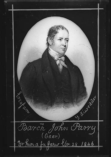 1 negative : glass, wet collodion, b&w ; 11 x 16.5 cm.